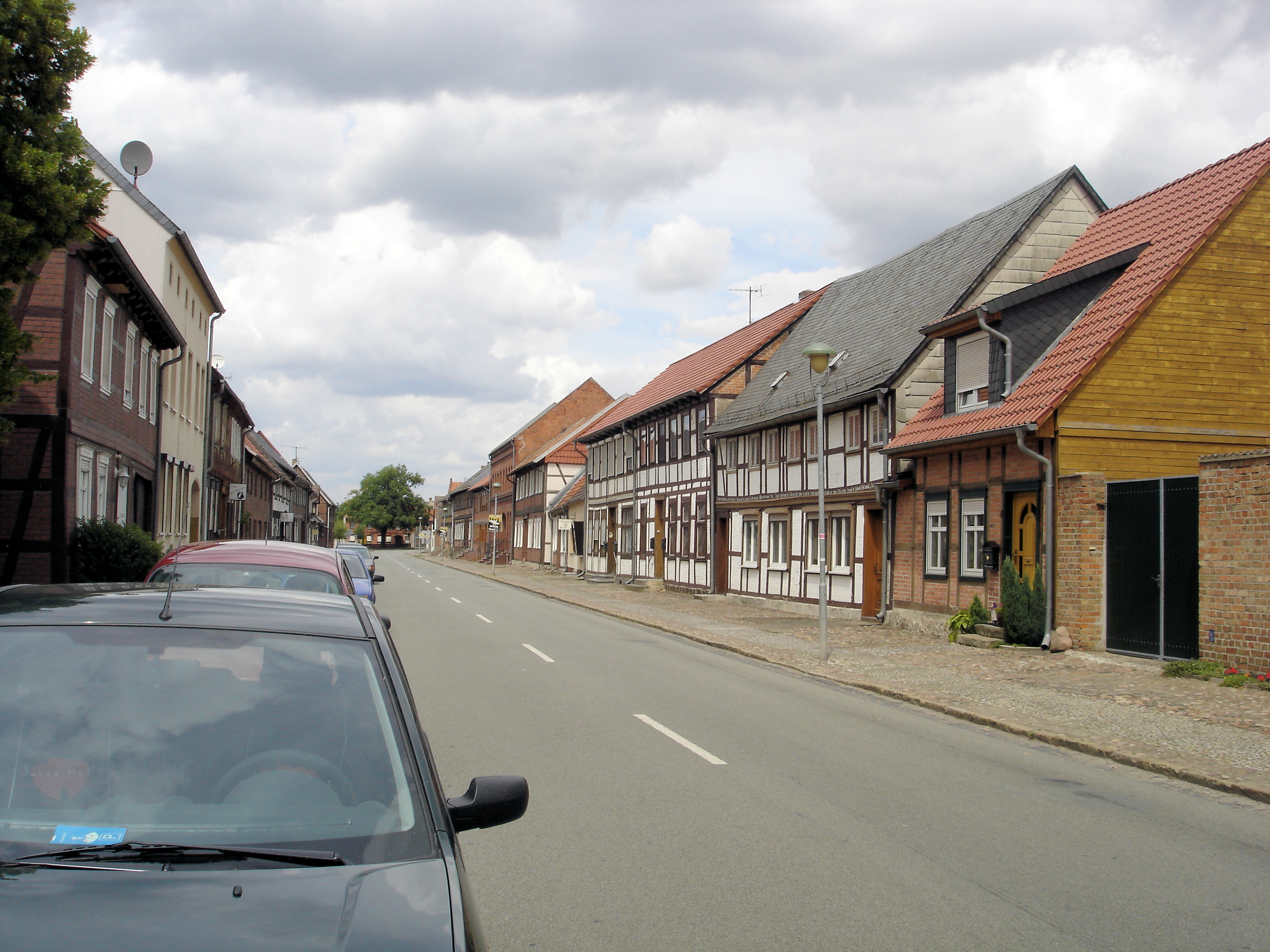 Timber framed houses in Apenburg, Saxony-Anhalt, Germany